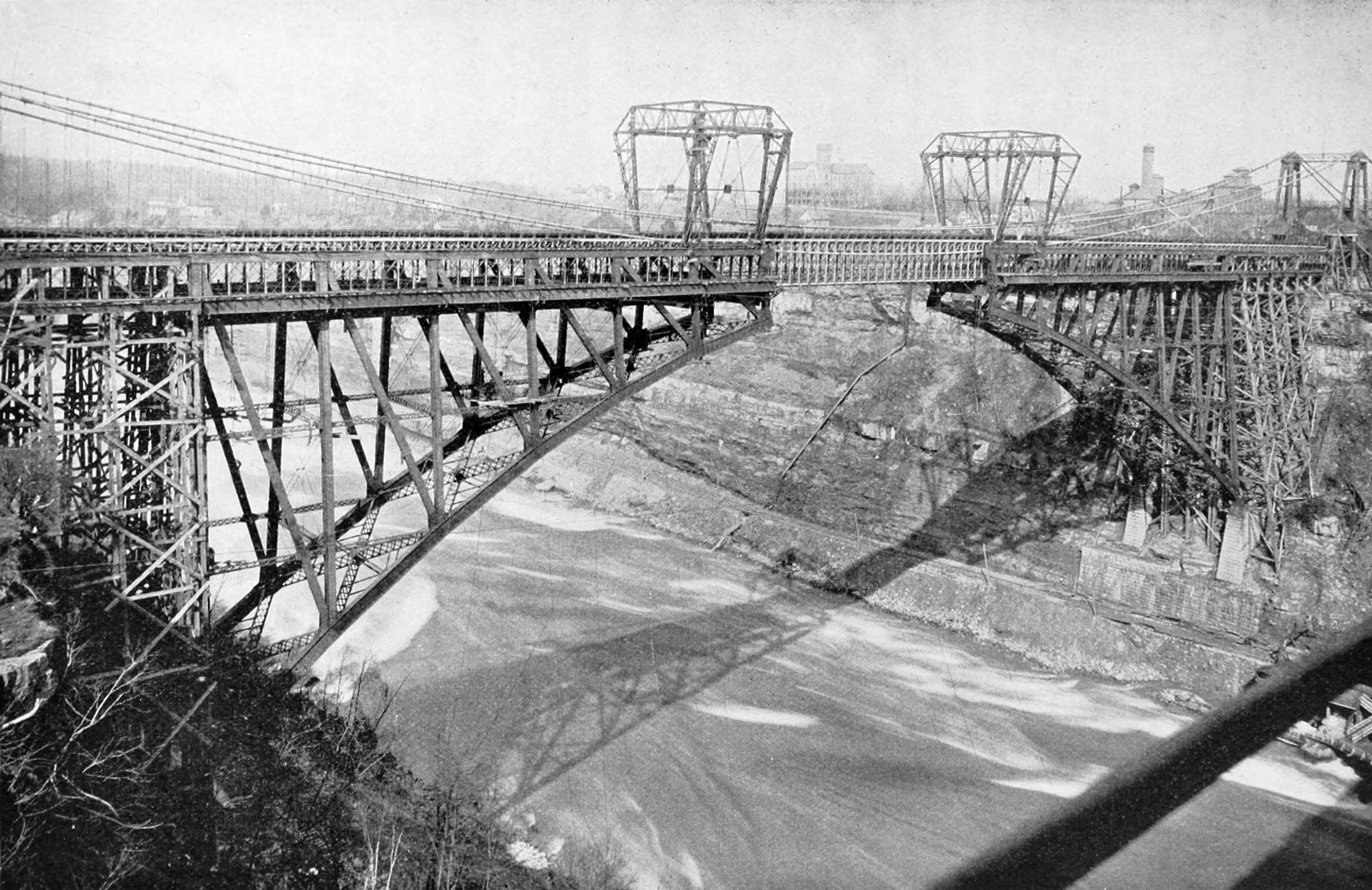 Extending the steel arches